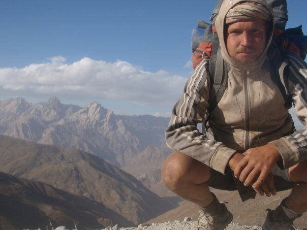 Nicklas Lautakoski in Tadjikistan.